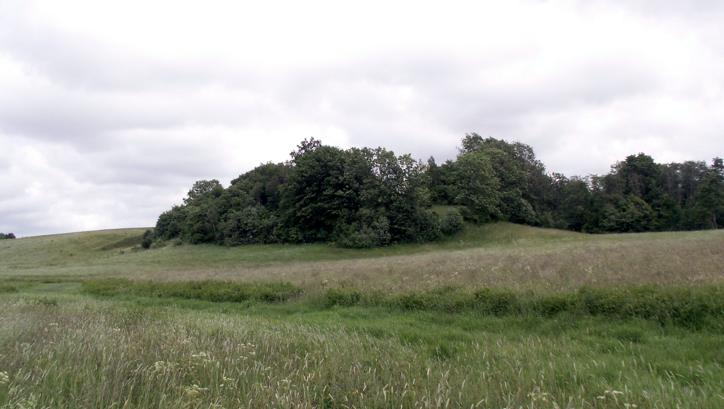 Hillfort Valėnai, Kretinga district, Lithuania